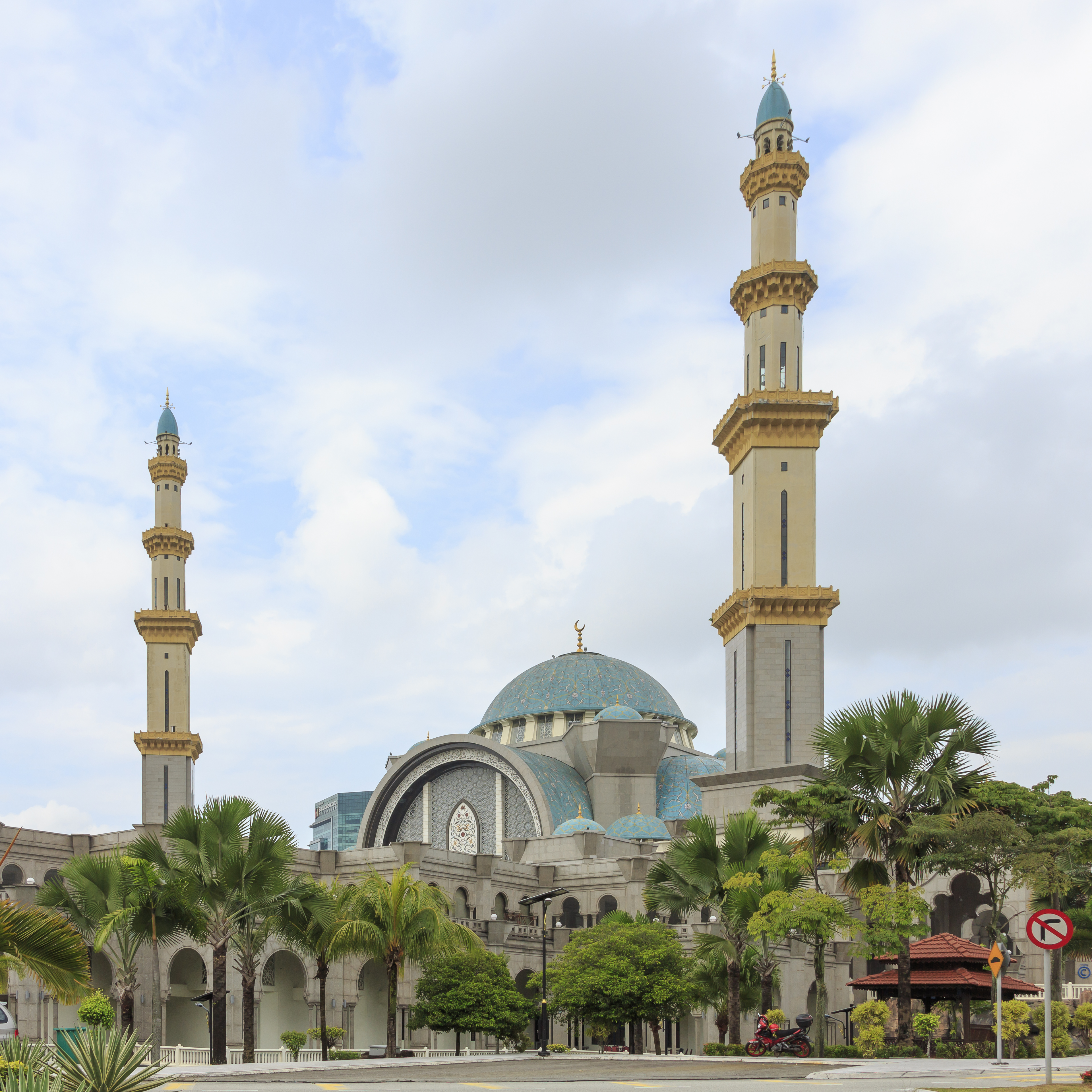 Kuala Lumpur, Malaysia: Federal Territory Mosque / Masjid Wilayah Persekutuan (Kuala Lumpur)